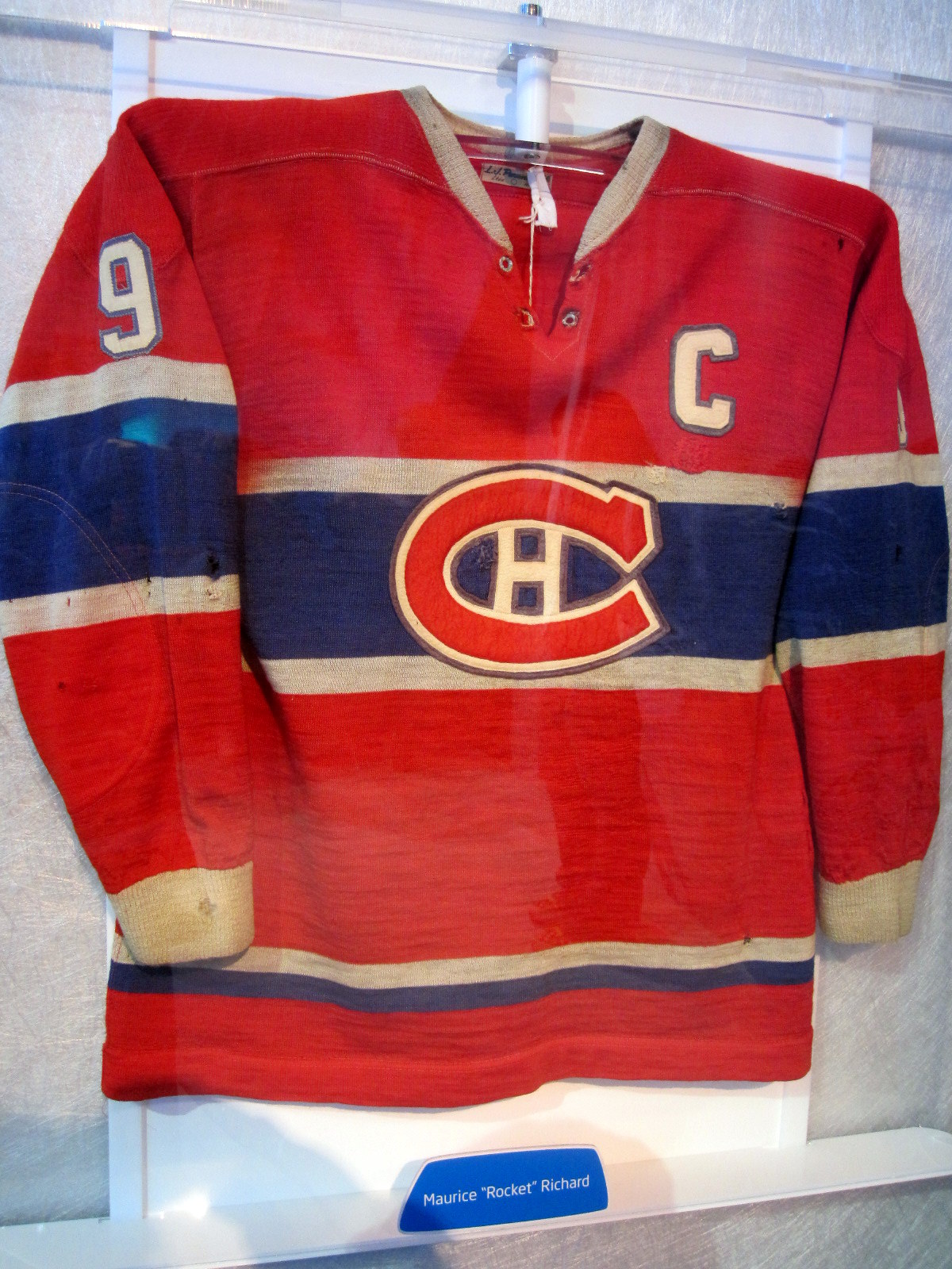 Montreal Canadiens jersey worn by Maurice Richard during his final NHL season in 1959-60 on display at LiveCity Downtown during the 2010 Winter Olympics in Vancouver.